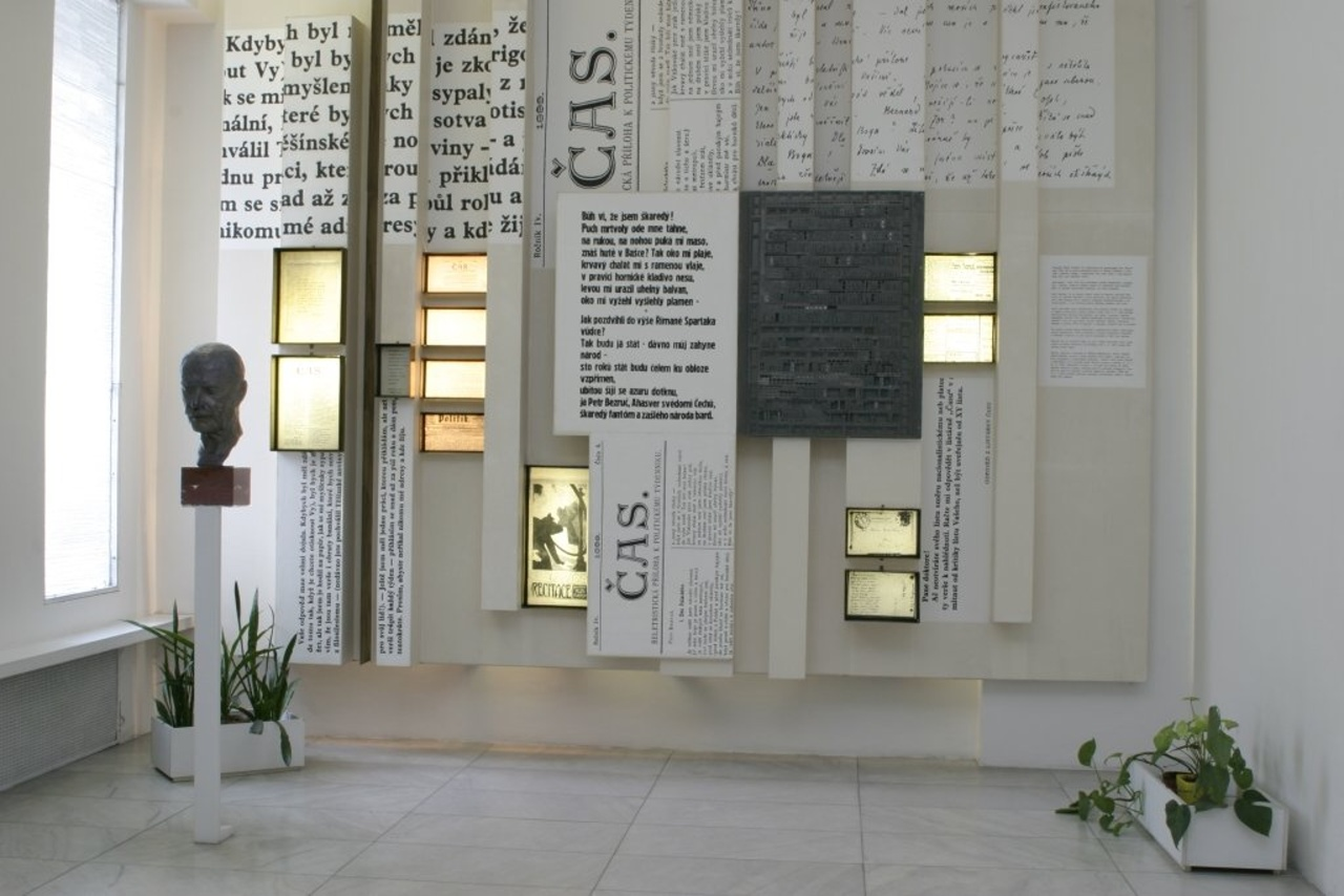 Silesian museum - PB 2